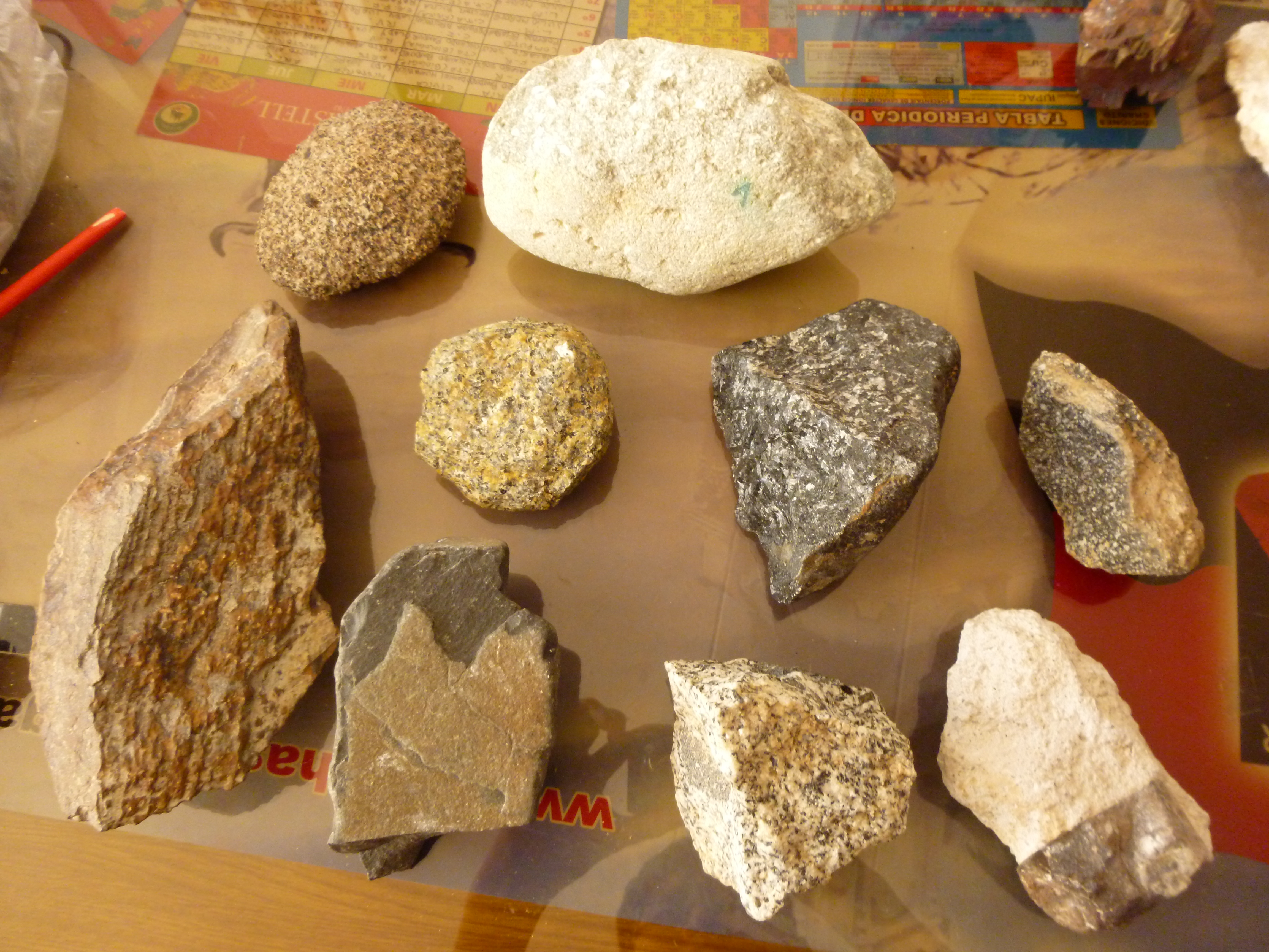 Samples of various igneous rocks from the Arequipa region of Peru. From top left to bottom right these are: granodiorite, andesite, syenite, gabbro, rhyolite, basalt, granite and an ignimbrite (a collective term for a special type of volcaniclastic sediment).